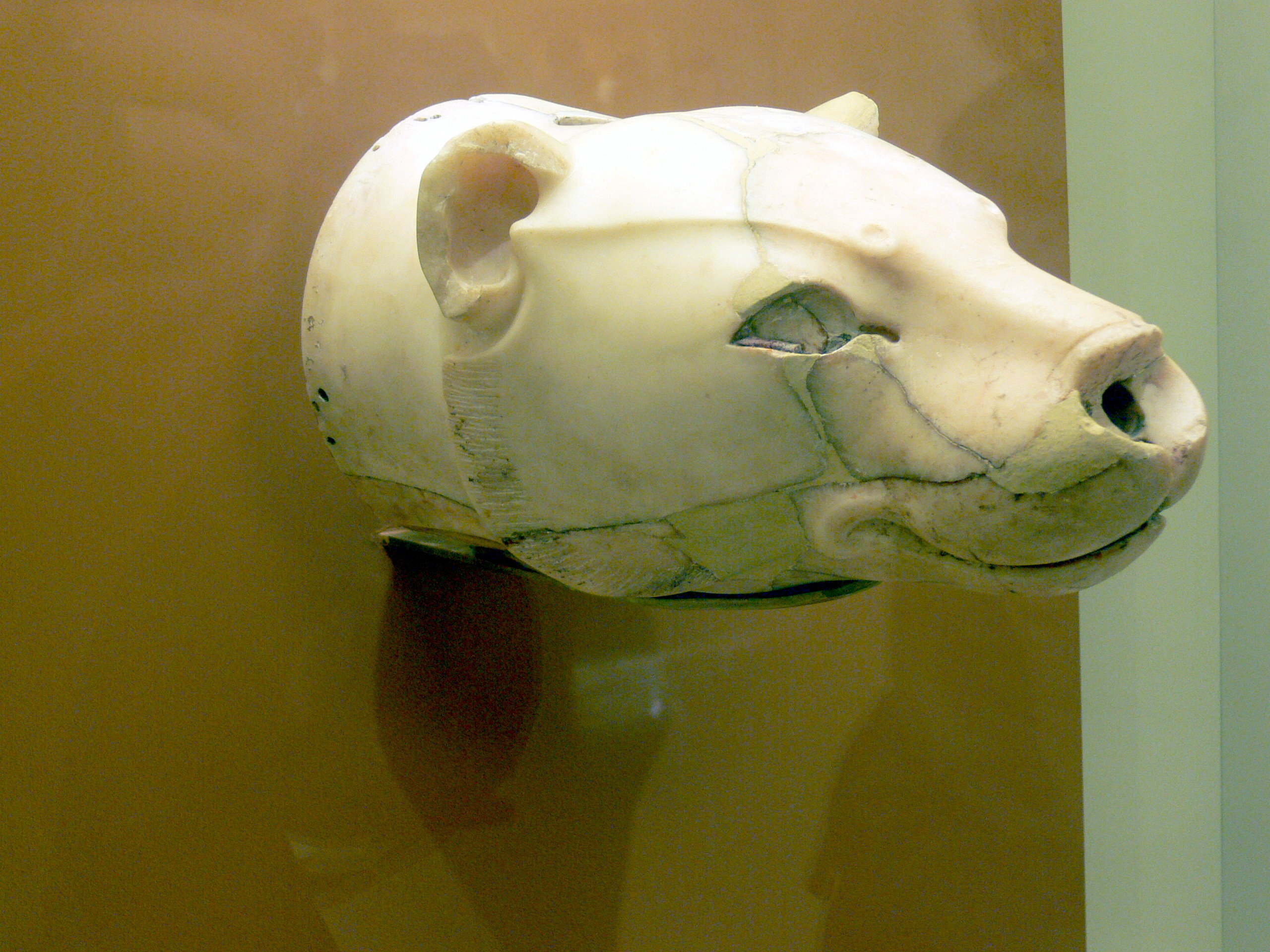 Archaeological Museum in Herakleion. Minoan alabastre rhyton in form of a lioness´ head.